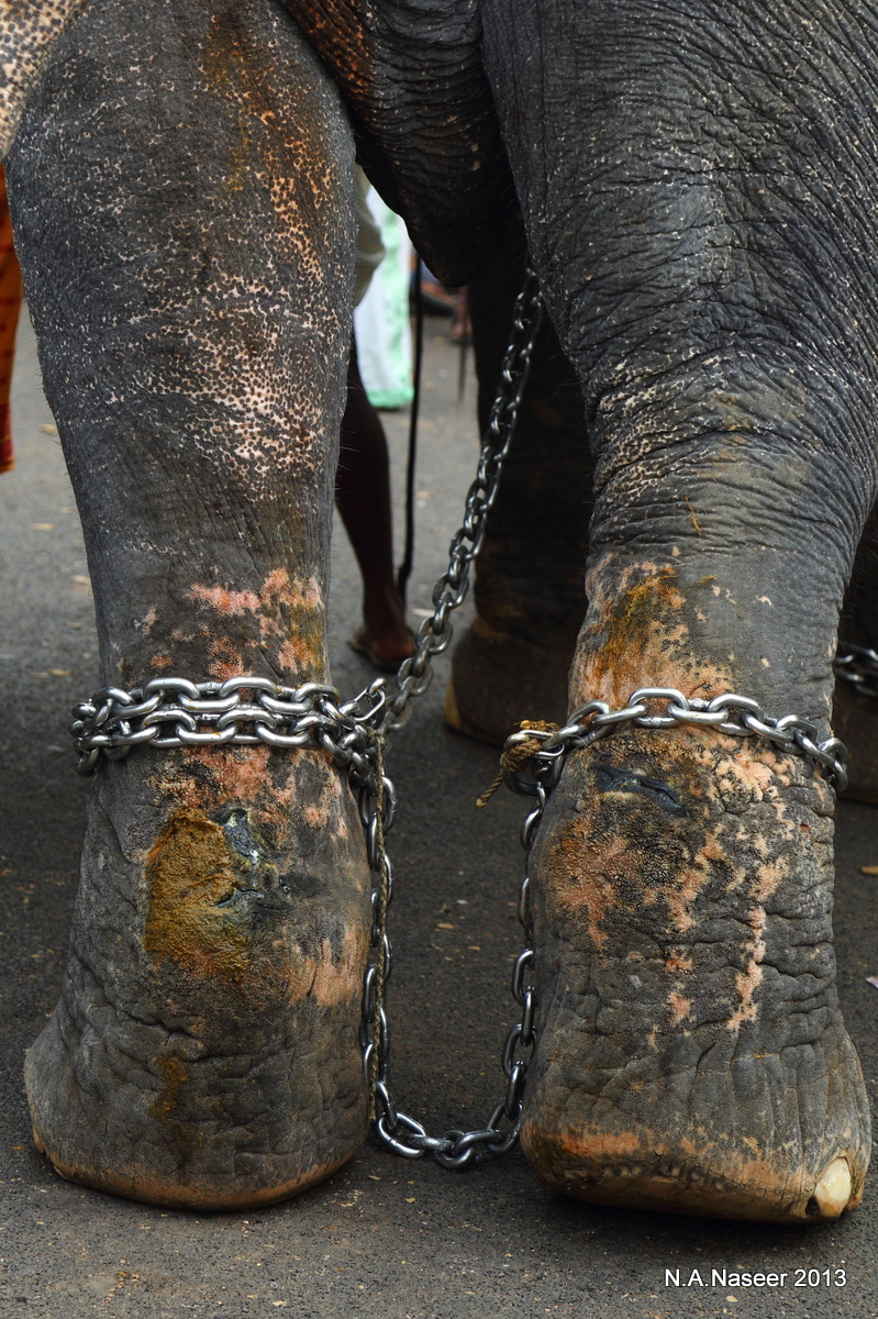 Captive Elephants of Kerala, Cruelty against elephants, Aanapremam, Thrissur Pooram, Festivals of Kerala, Elephants in captivity, Temples of Kerala, E4 elephant